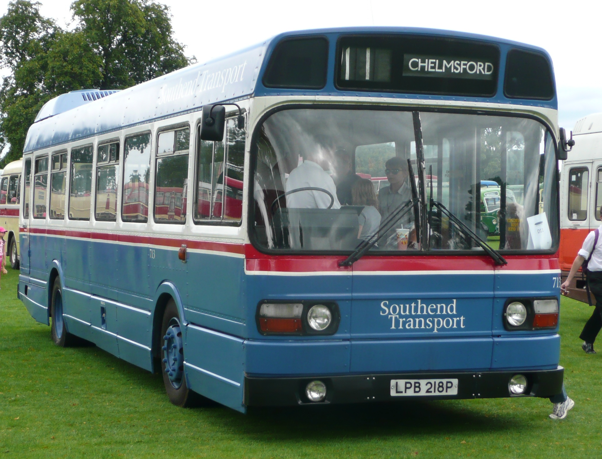 Preserved Southend Transport bus (reg. LPB 218P), a 1976 Leyland National single-decker, pictured at the 2008 Alton bus rally at Anstey Park in Alton, Hampshire.